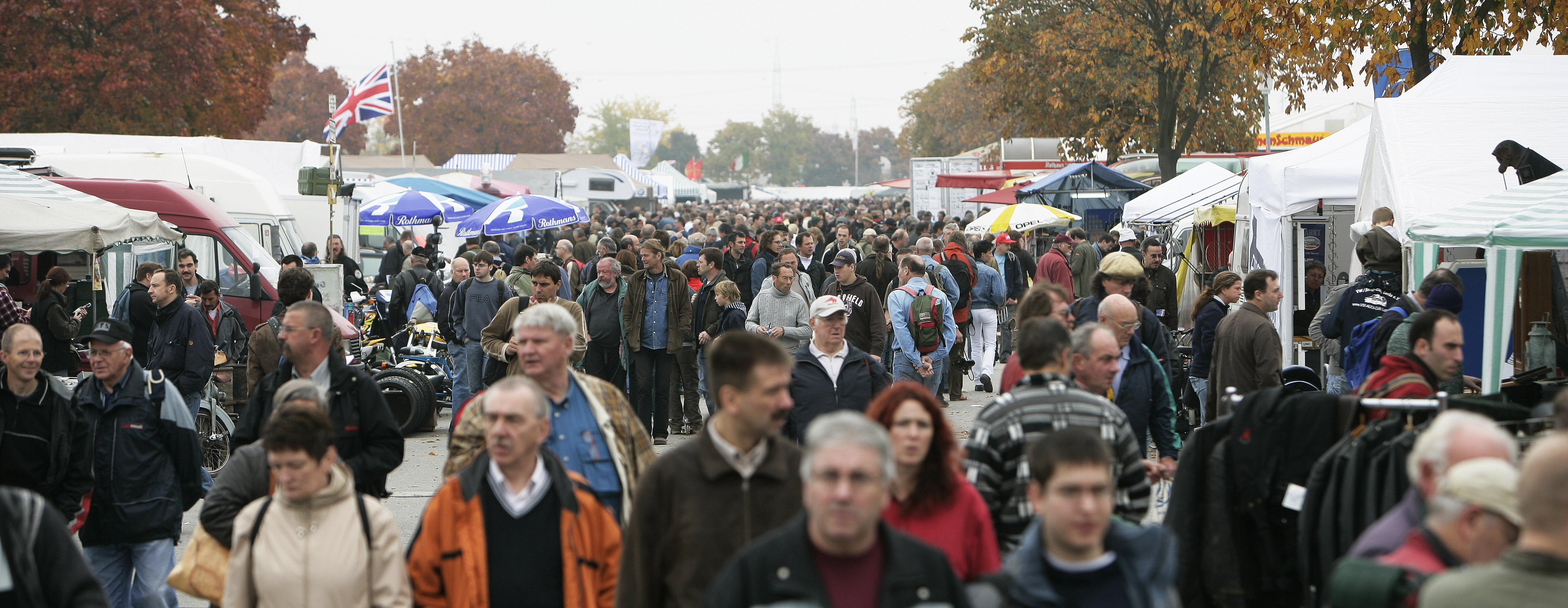 Veterama Mannheim 2008